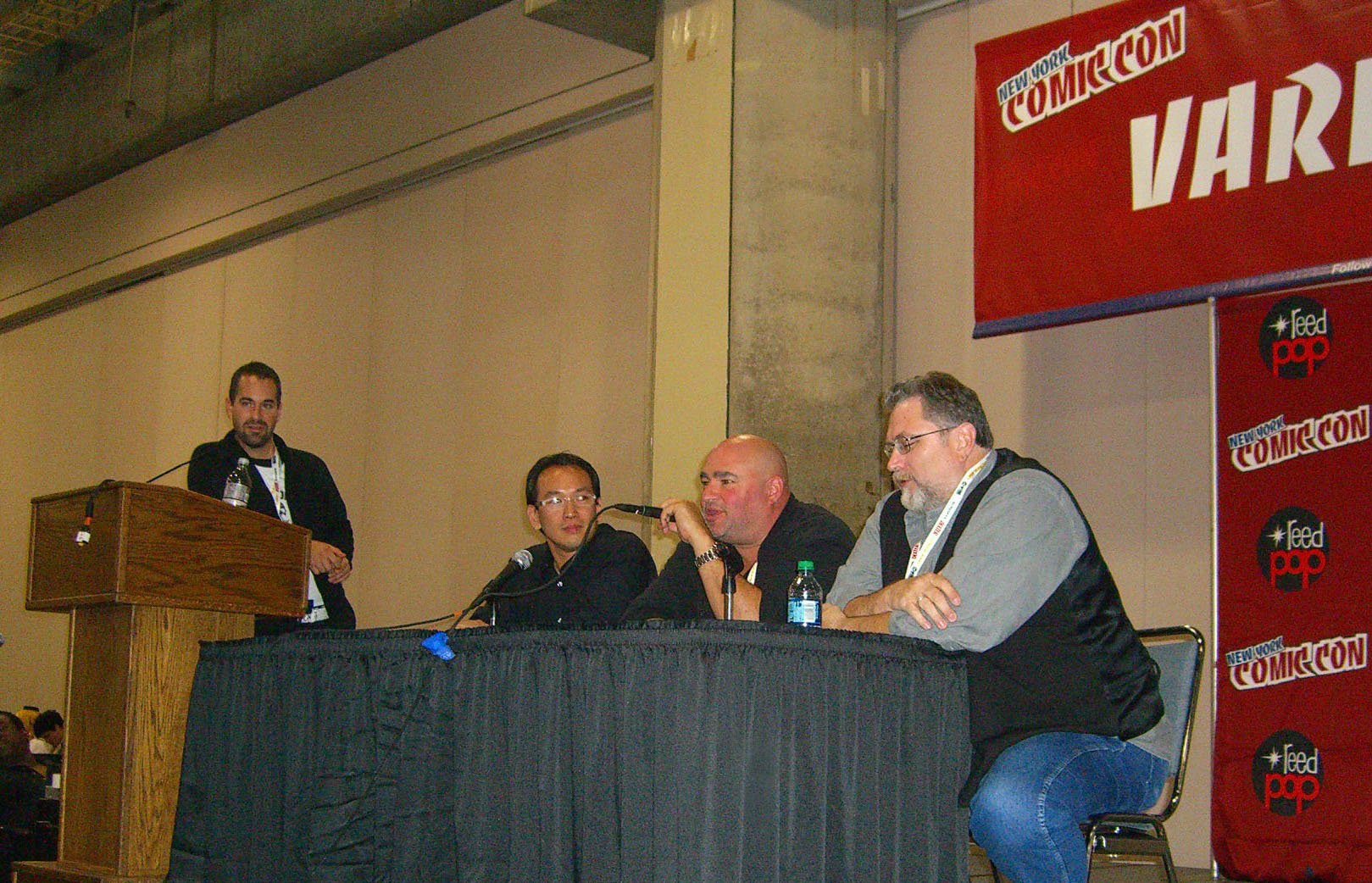 The Friday evening zombie discussion panel featuring novelists who have worked in the genre at the Variant Stage at the Jacob K. Javits Convention Center in Manhattan, on Day 2 of the 2012 New York Comic Con. From left to right are emcee Aaron Sagers and writers Roger Ma, Jonathan Maberry and Craig Singer. This photo was created by Luigi Novi. It is not in the public domain, and use of this file outside of the licensing terms is a copyright violation.